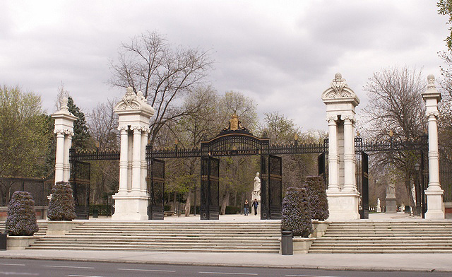 Puerta de España. One of the entrances of the Retiro Park (Jardines del Buen Retiro) in Madrid (Spain). Projected by architect José Urioste y Velada and built in 1893.